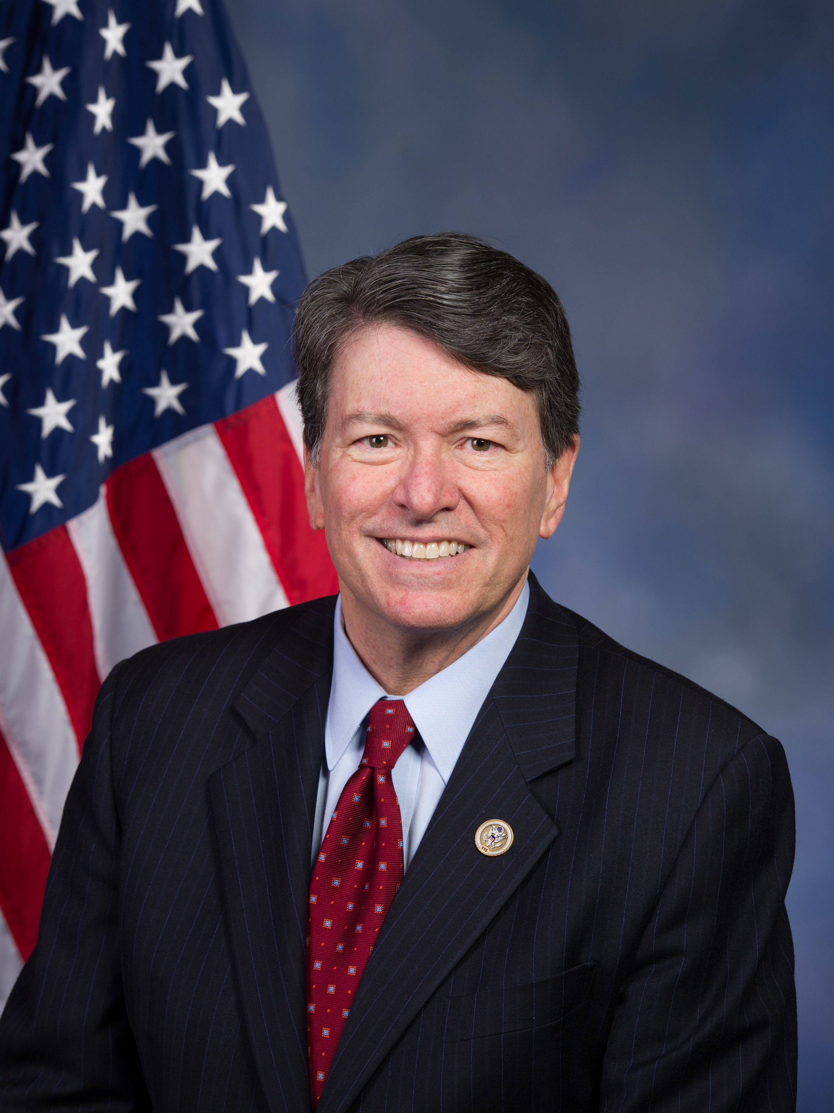 John Faso official photo, 115th Congress